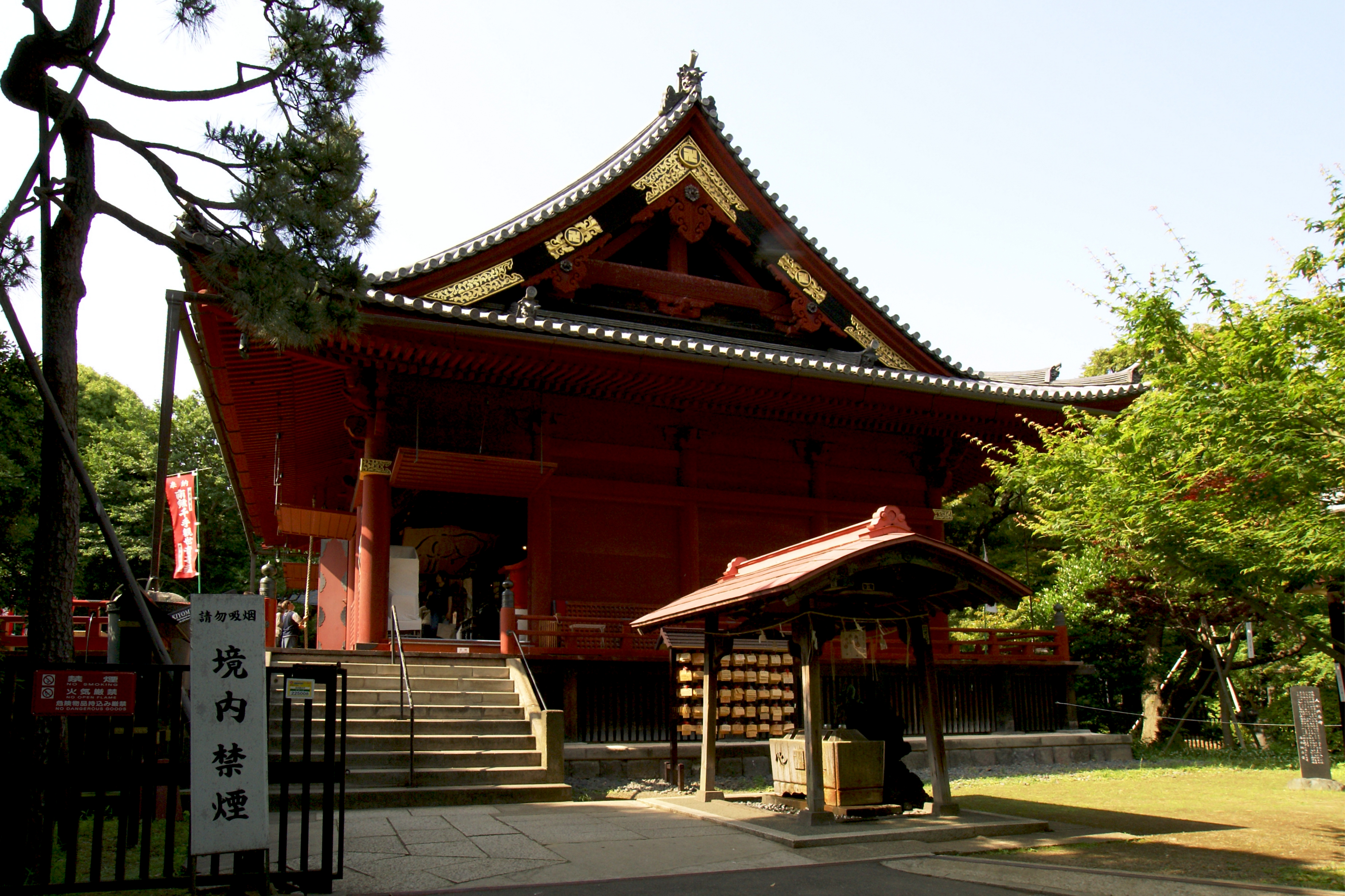 Kan'ei-ji, Taito-ku, Tokyo, Japan